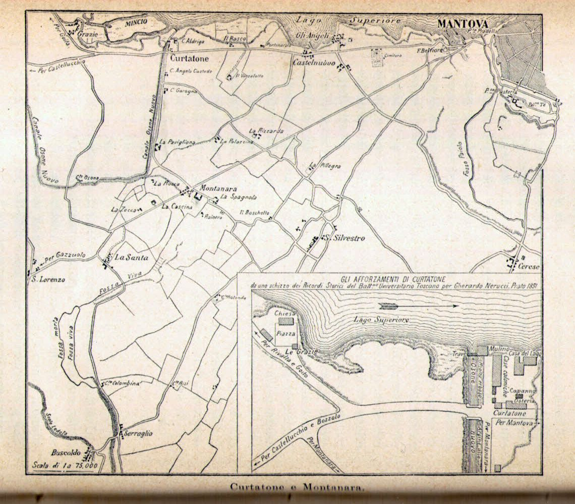 Map of Battle of Curtatone and Montanara, Italy (1848)